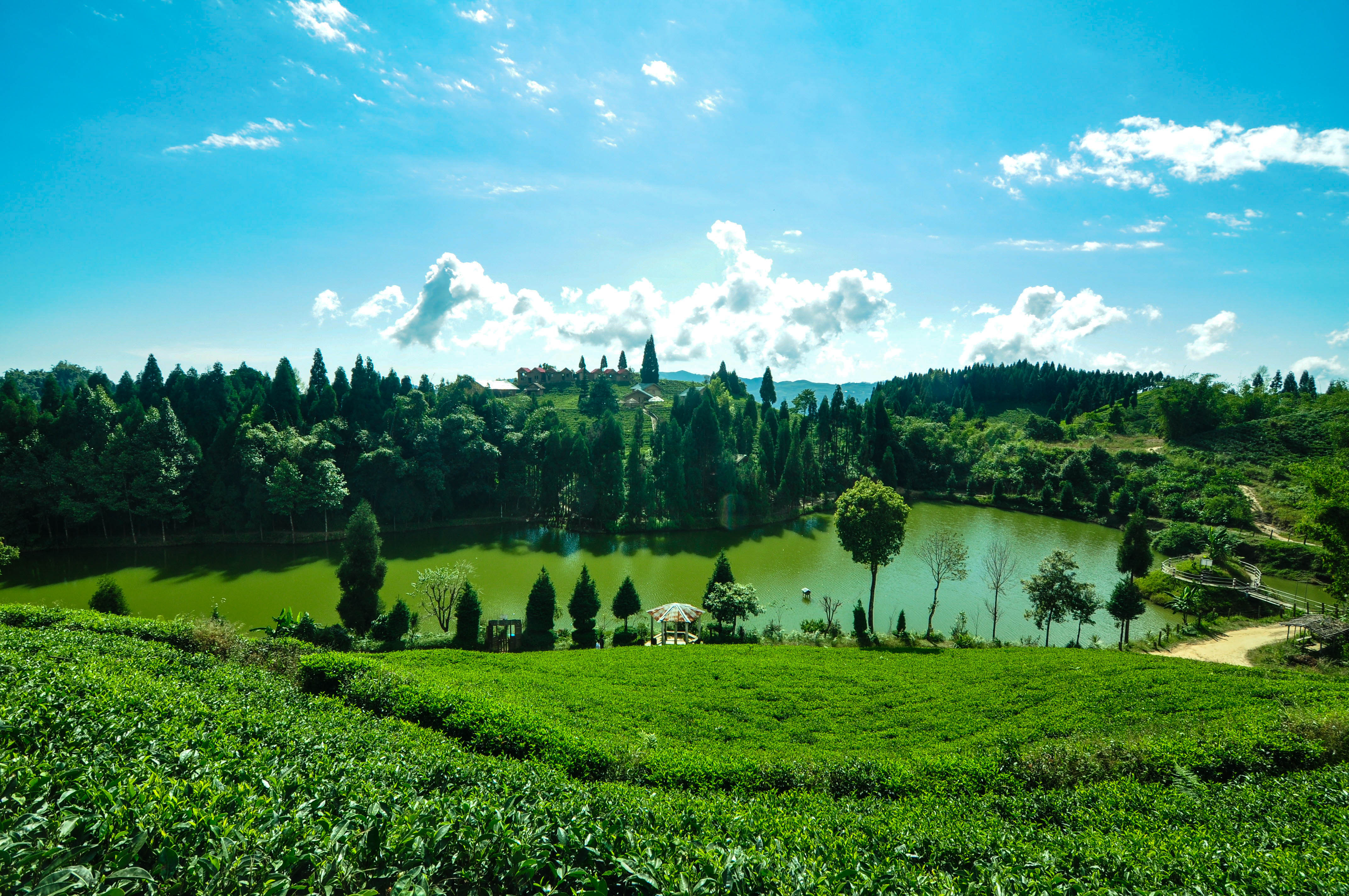 one of the tourist spot of ilam.